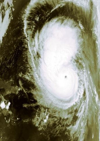 Image of 1996's Hurricane Bertha north of Hispaniola at peak intensity on July 9, 1996.